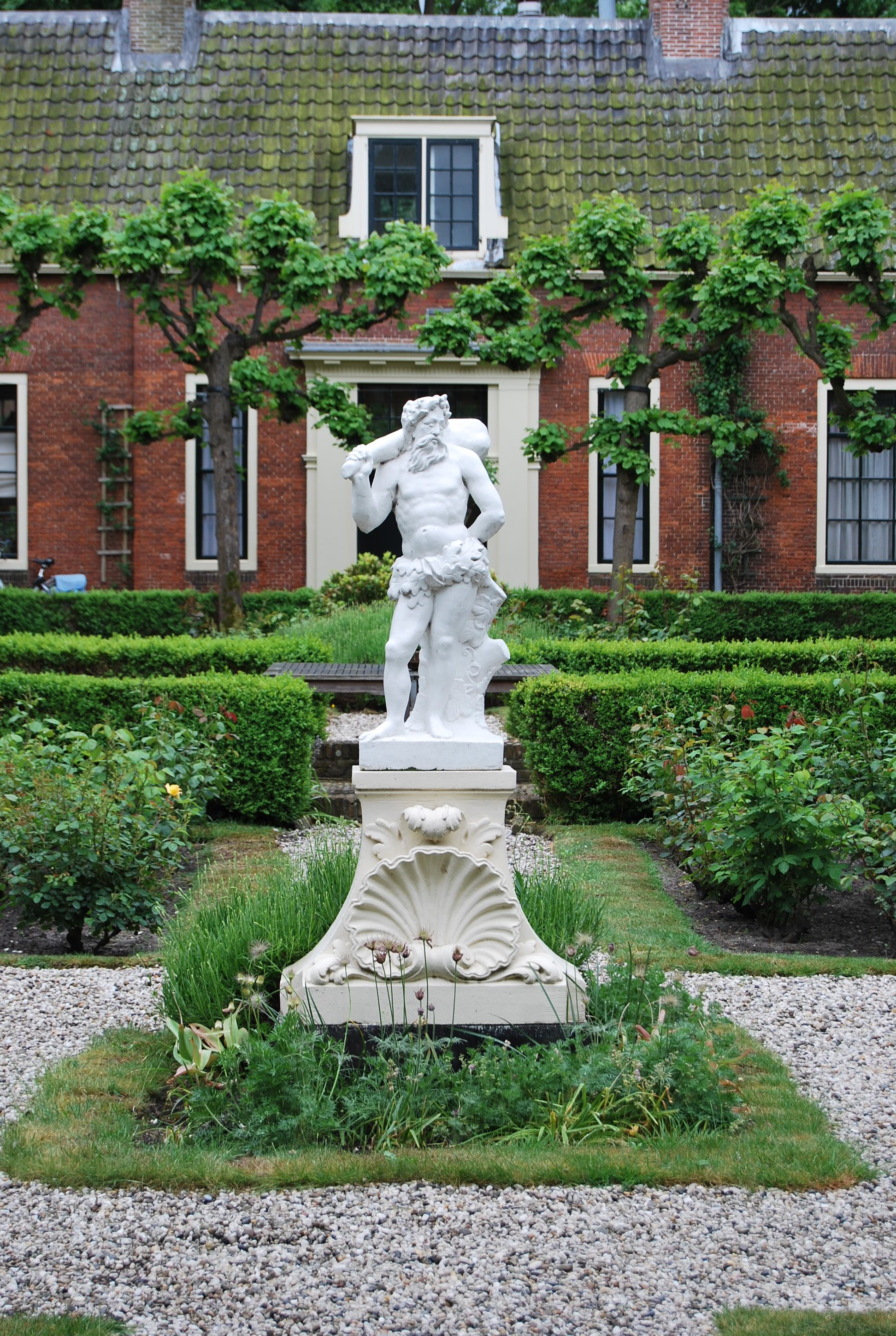 Sculpture of a 'Wild Man' in the Wildemanshofje (Wildemans Almhouse), Oudegracht, Alkmaar, Netherlands. Wildeman (of Wildman) was the surname of the founder of this almhouse, the symbol of a Wild Man was also used in his coat of armor. The sculpture is made by Jacob van der Beek.